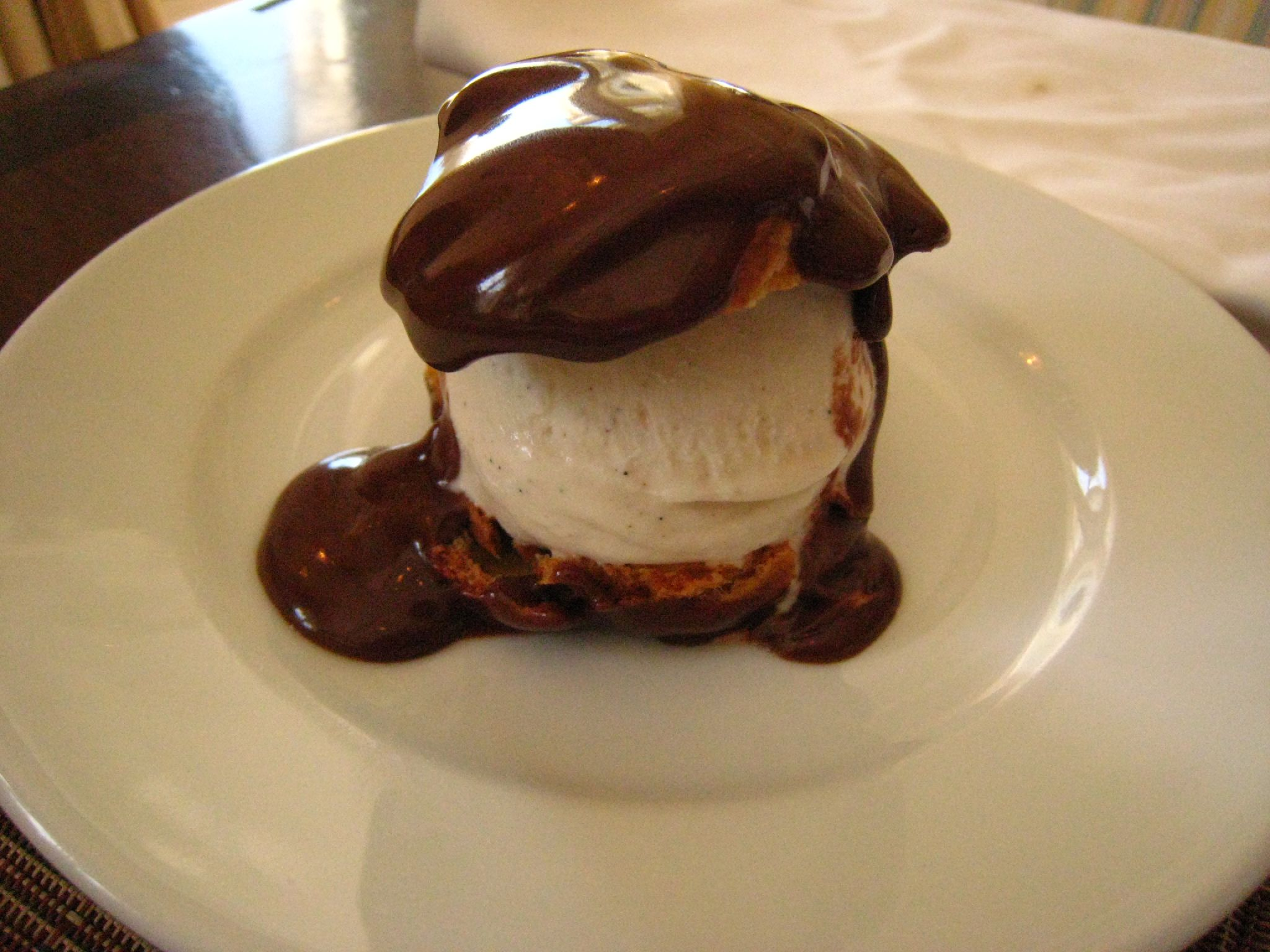 Profiteroles